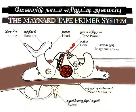 Maynard Tape Primer System